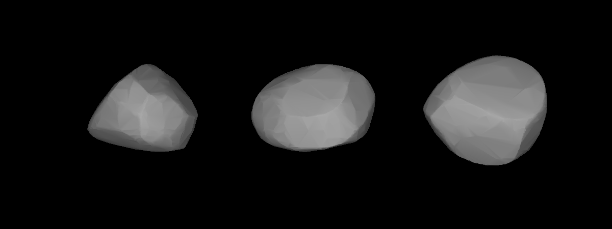 A three-dimensional model of 72 Feronia that was computed using light curve inversion techniques.